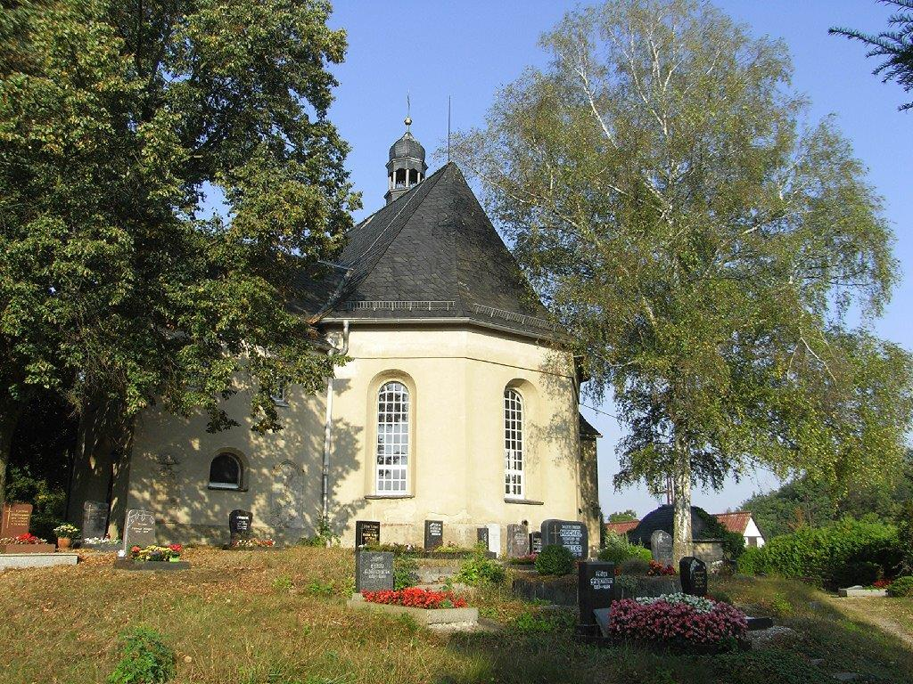 Cemetery and Church of Schönfels